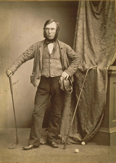 Allan Robertson, Pioneer Professional Golfer at St Andrews, Scotland, about 1850